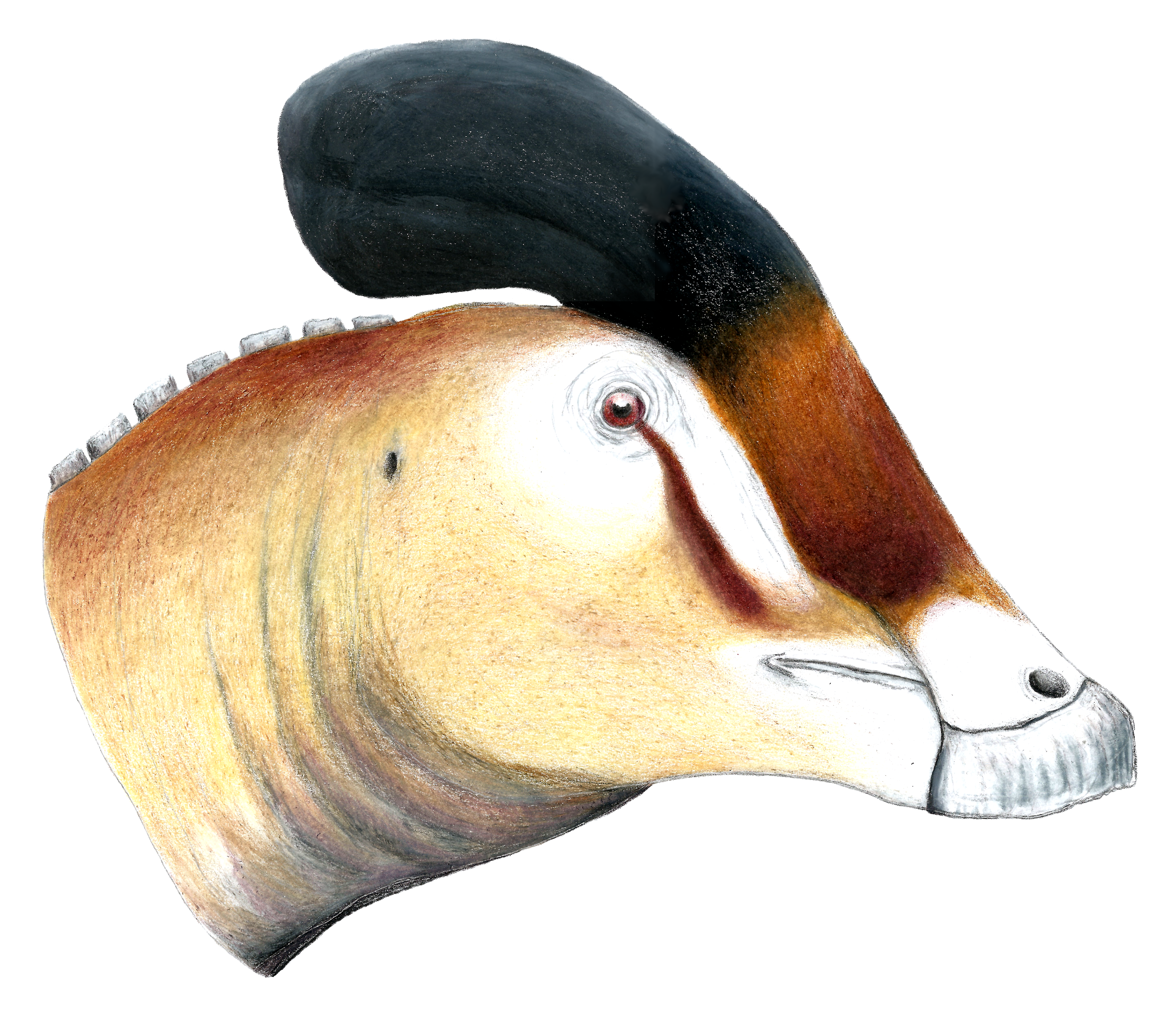 Life restoration of Adelolophus